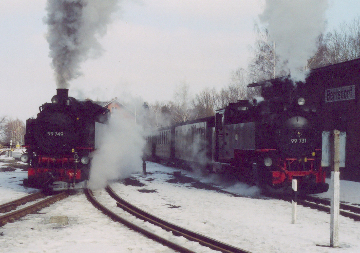 Zittau-Oybin-Jonsdorf line: Two trains are leaving Bertsdorf Station at the same time, one is going to Oybin, the other one is going to Jonsdorf.